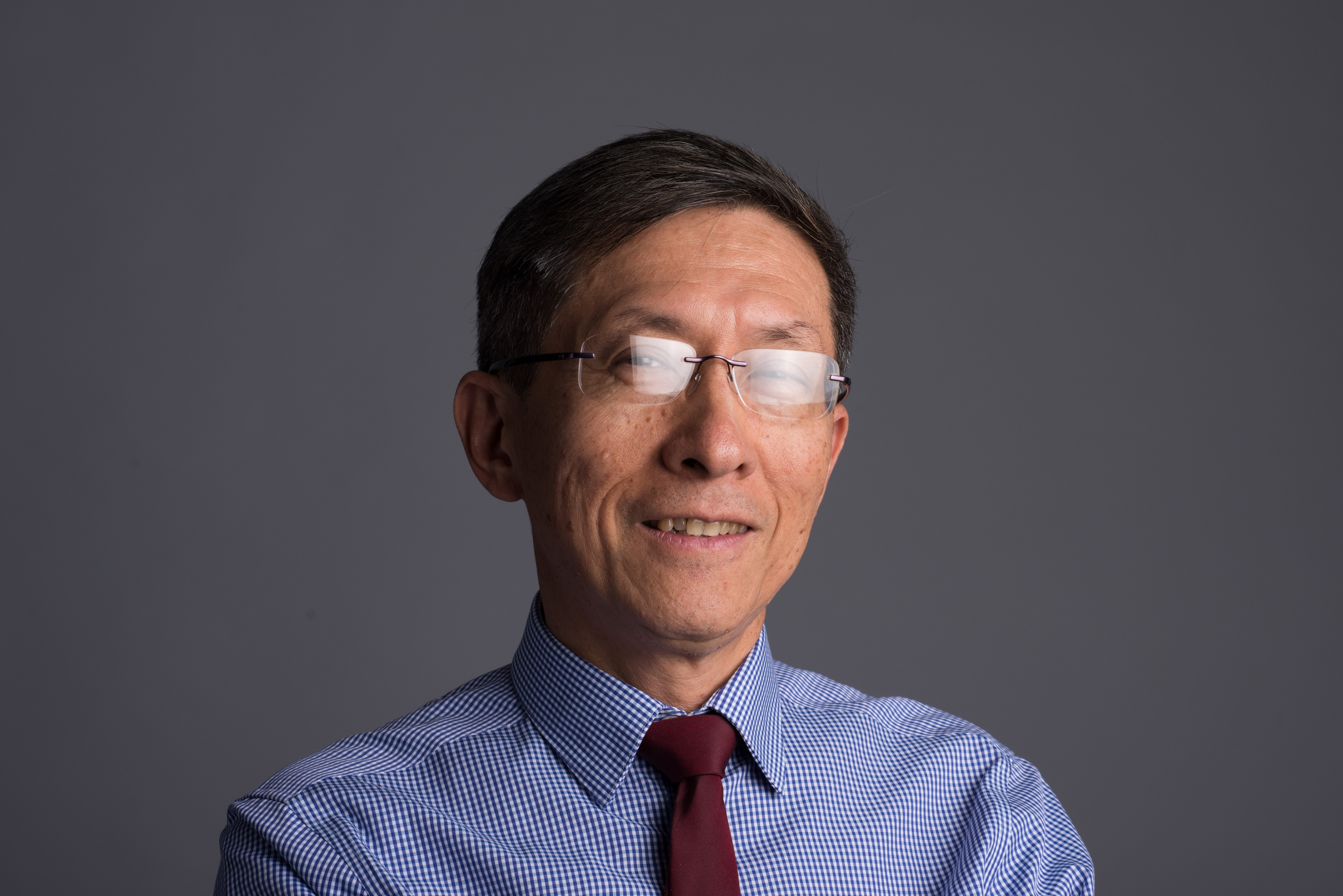 Headshot profile photo for Wikipedia on Wellington Chen